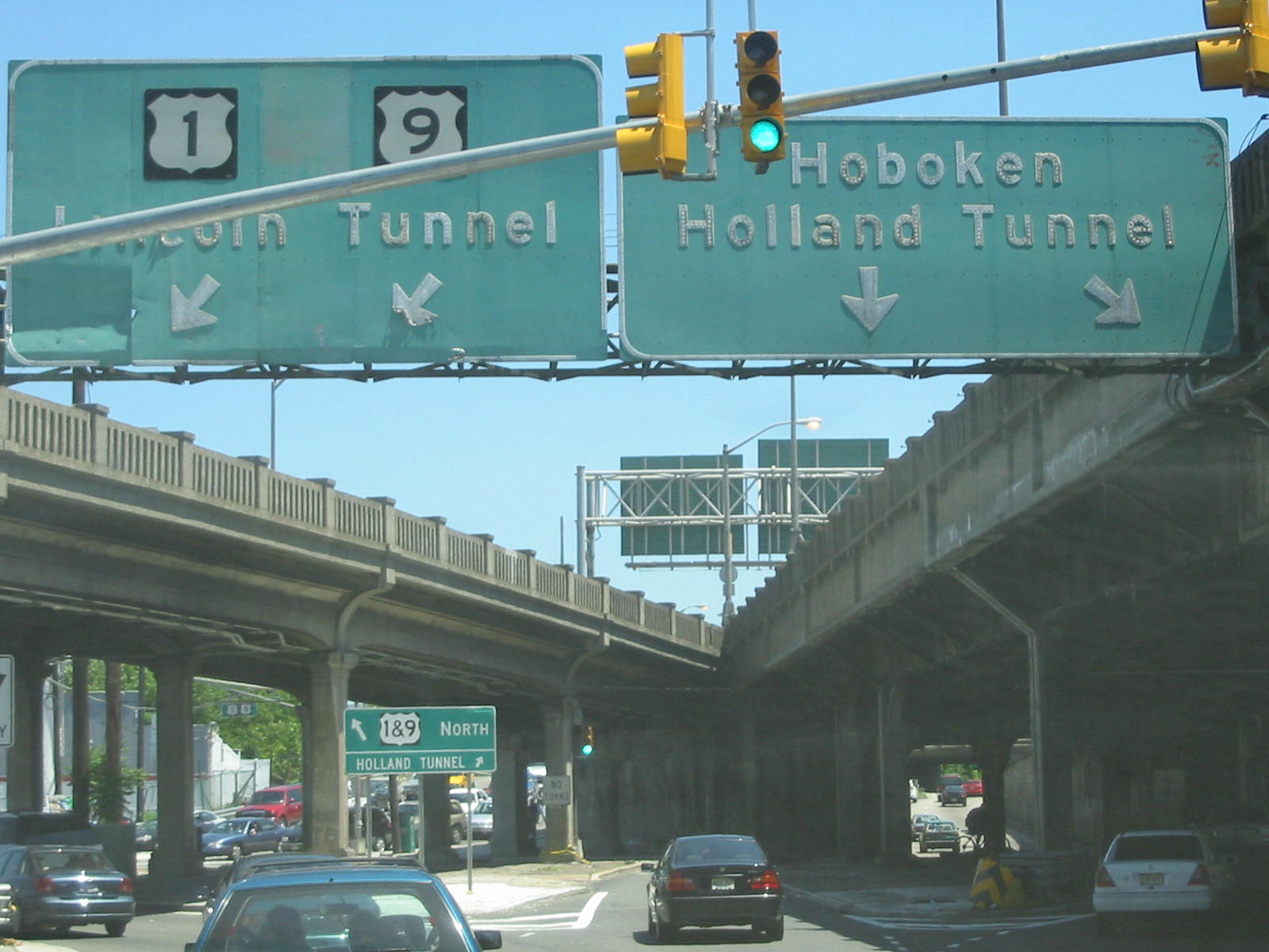 The north end of TRUCK US 1/TRUCK US 9 at Tonnelle Circle, with a view of the underside of the Pulaski Skyway. Photo taken May 30, 2004 by User:SPUI.